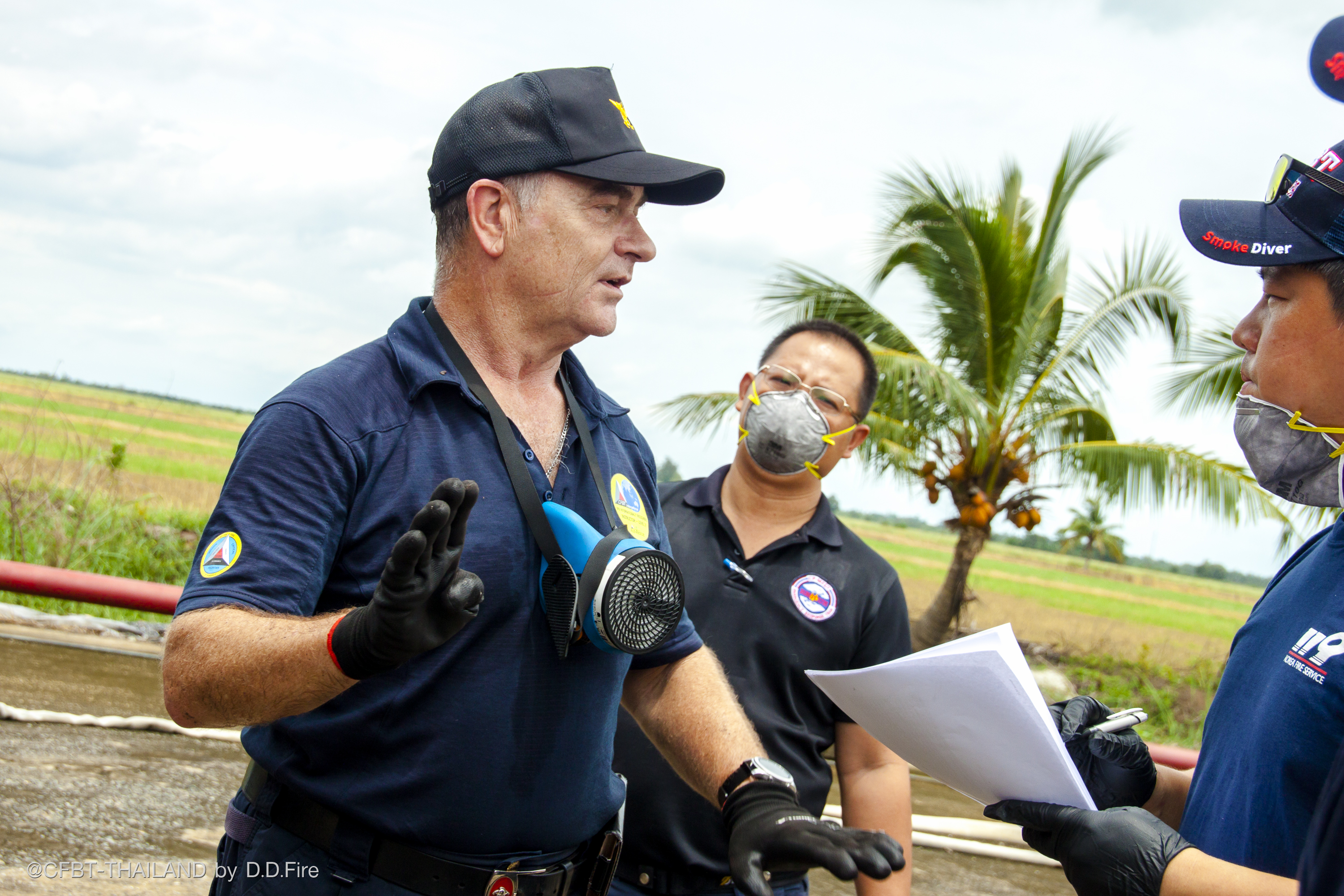 Shan Raffel, Lee Hyungeun (firefighter), 2019 CFBT-I Instructor and Tactical Ventilation Instructor International Course